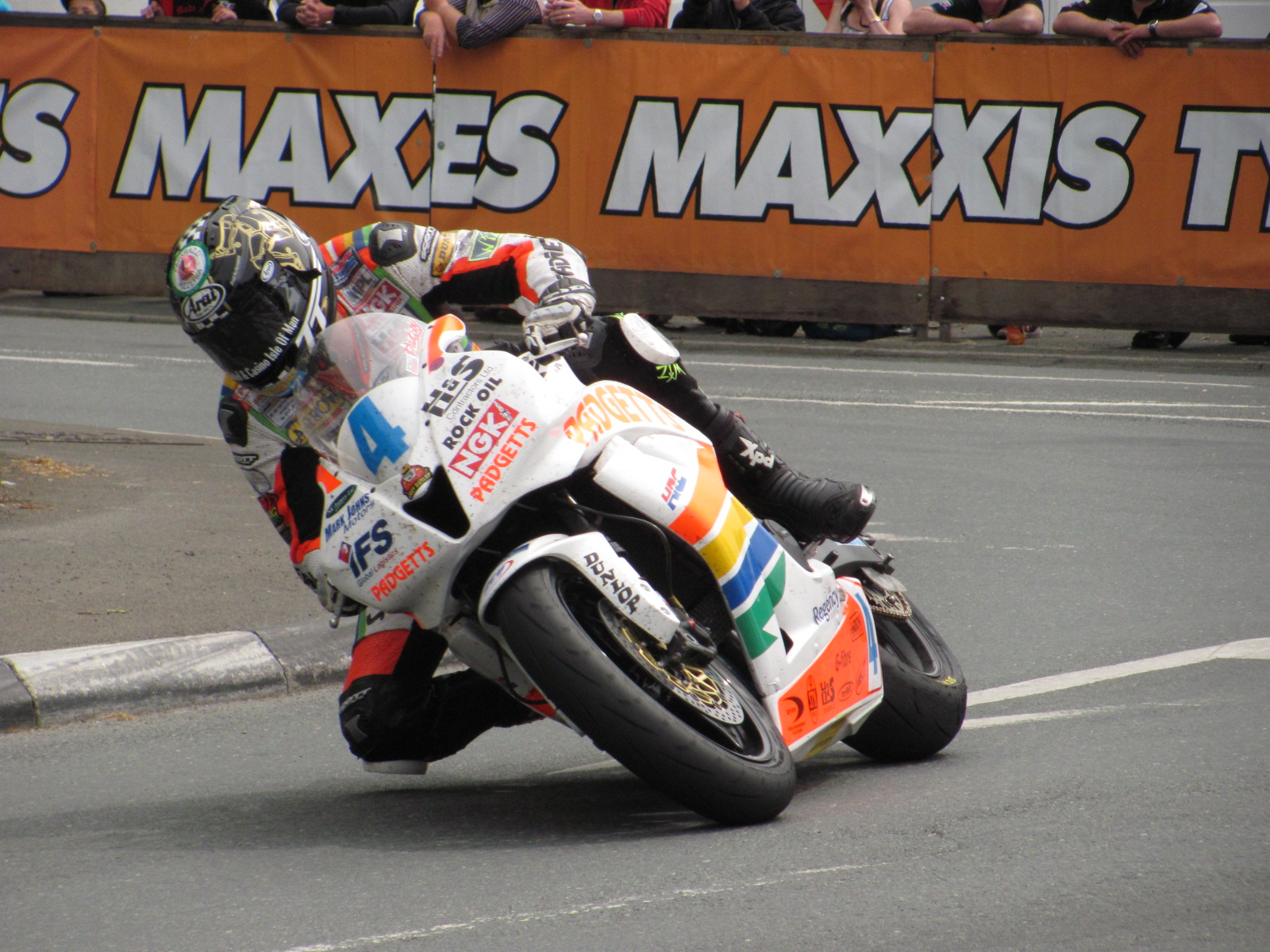 Ian Hutchinson